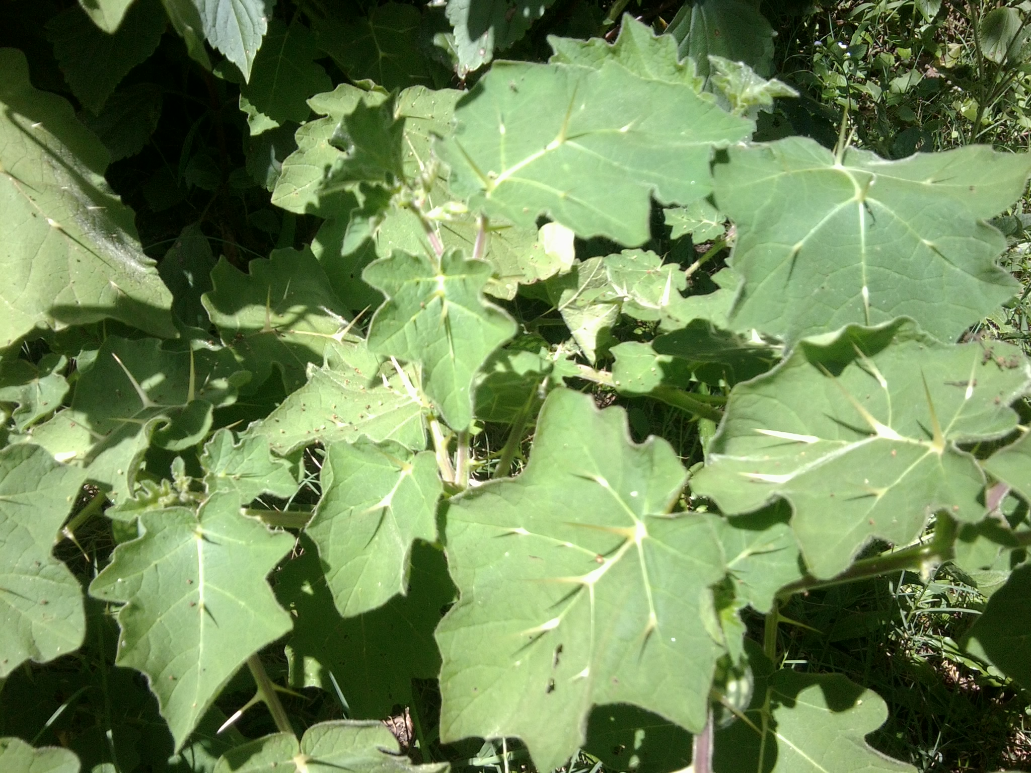 Solanum xanthocarpum in Nepal.